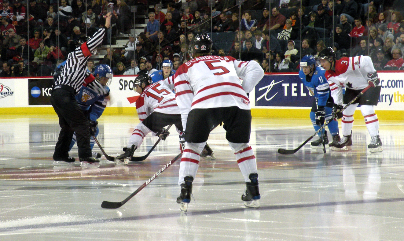 The Canadian and Finnish junior teams face off during a junior ice hockey exhibition game in Calgary, Alberta.